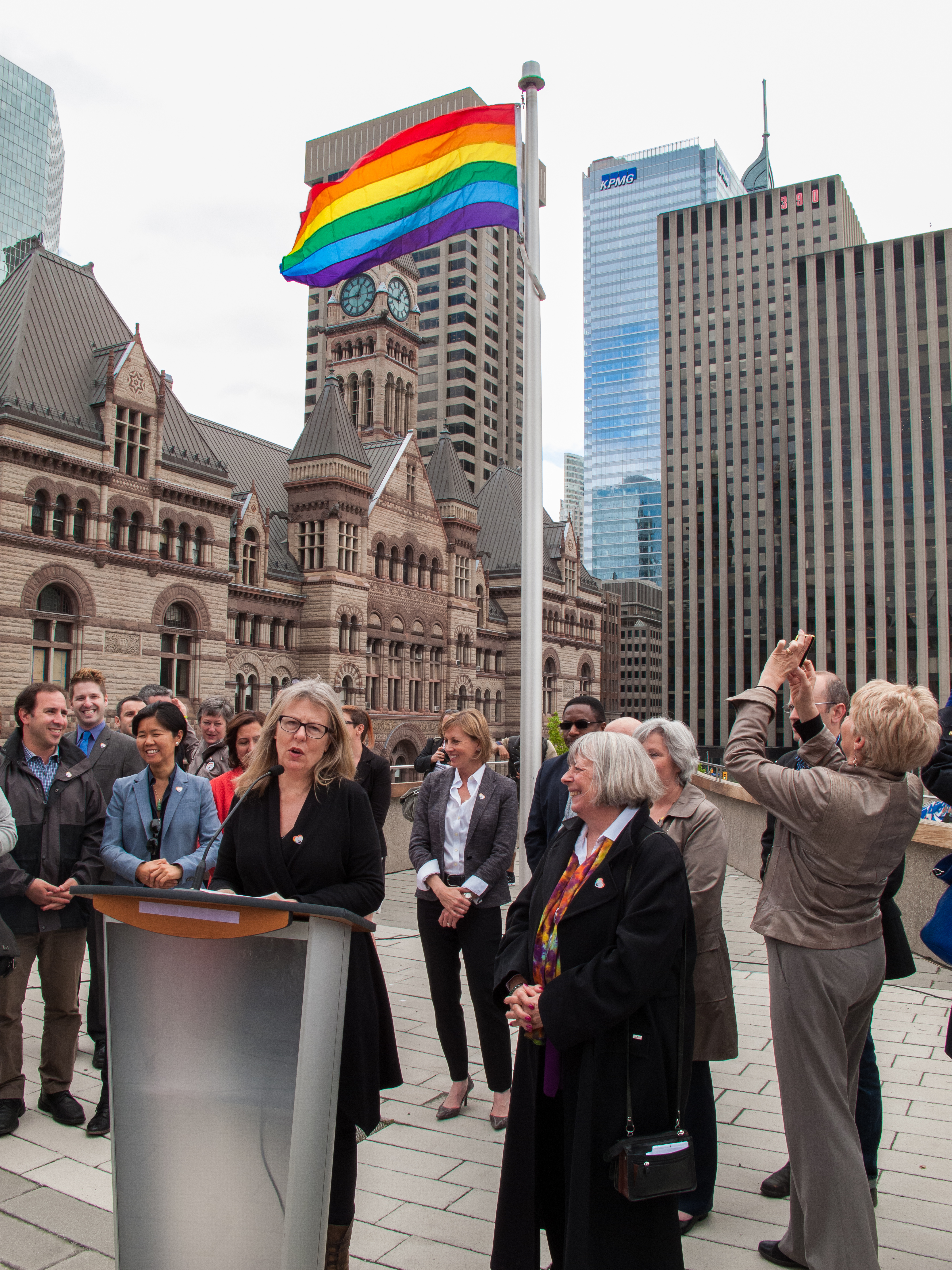 (May 16, 2014) - City Hall's Pride Flag Raising Ceremony and proclamation of the International Day Against Homophobia and Transphobia.